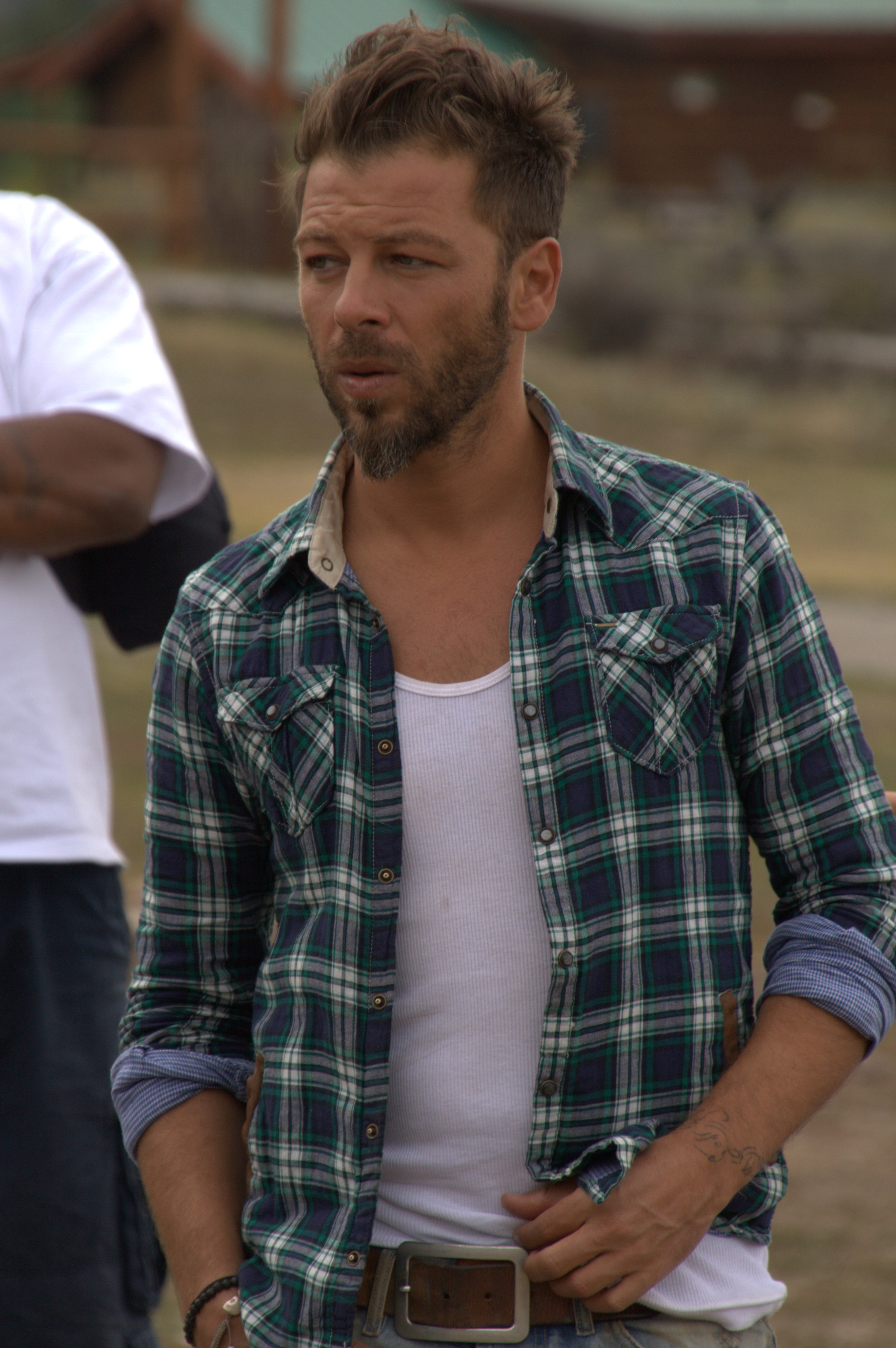 Taken at Triangle X Ranch, Moose WY; September 2011